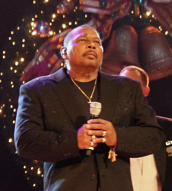 American R&B singer Aaron Neville at a Grand Ole Opry concert in 2007.